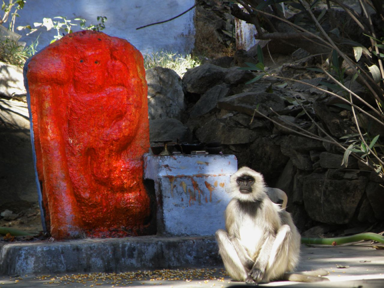 A Hanuman Statue, near Arbuda Devi Temple, Mount Abu, Rajasthan. with a Gray Langoor (Semnopithecus) by its side.